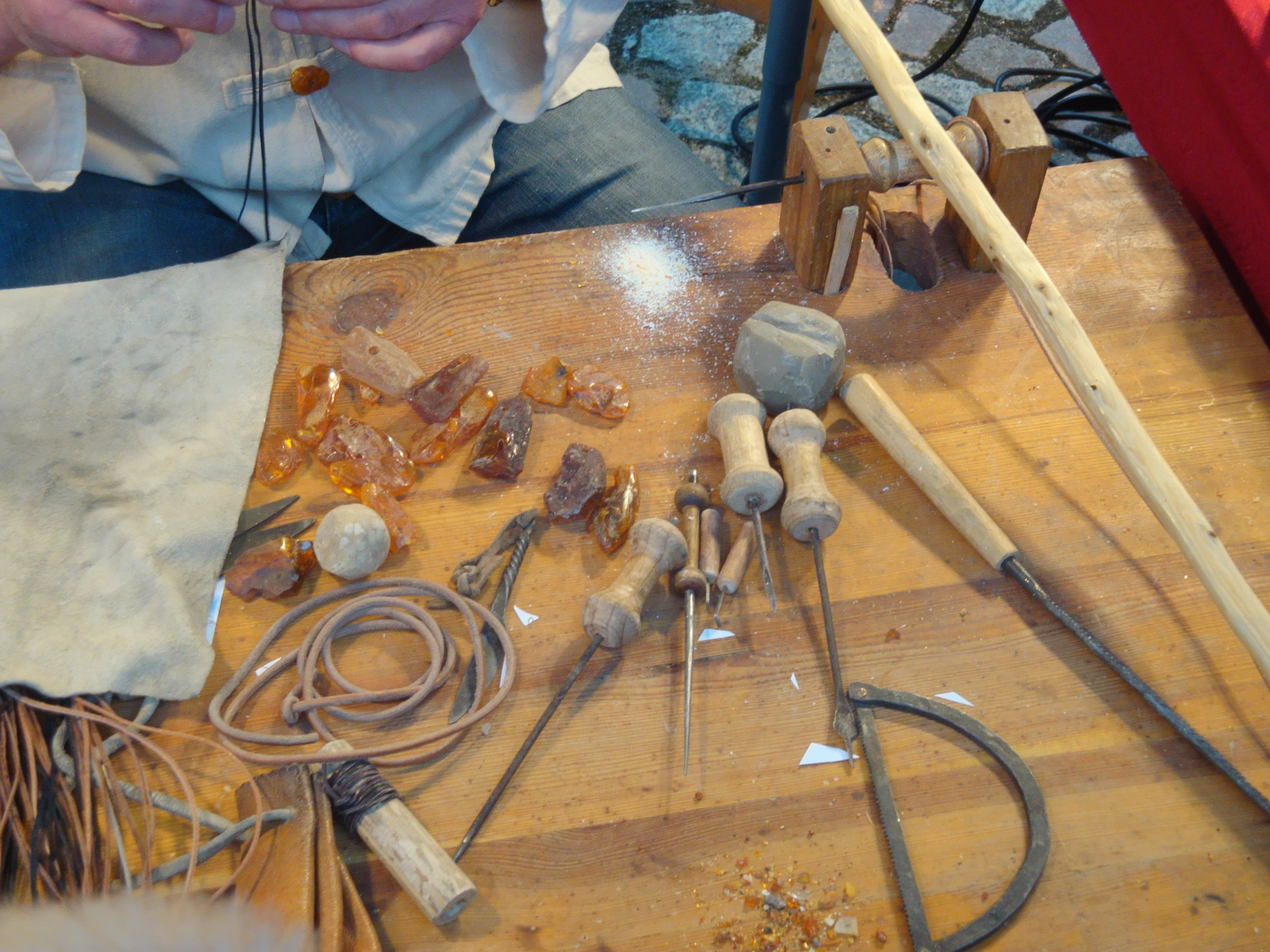 Ancient version of amber processing tools during demonstrated on Night of Museums 2011 in Museum in Grudziądz, Poland